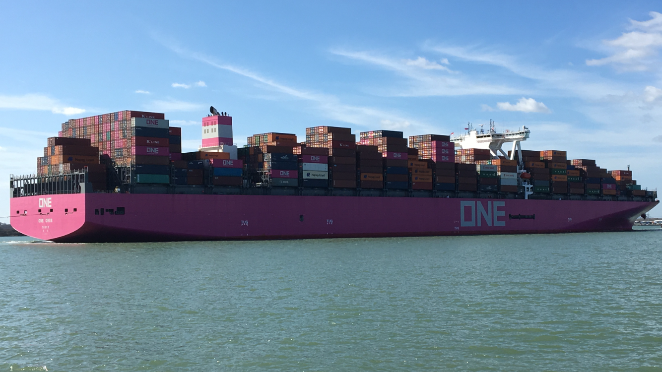 mv ONE Grus